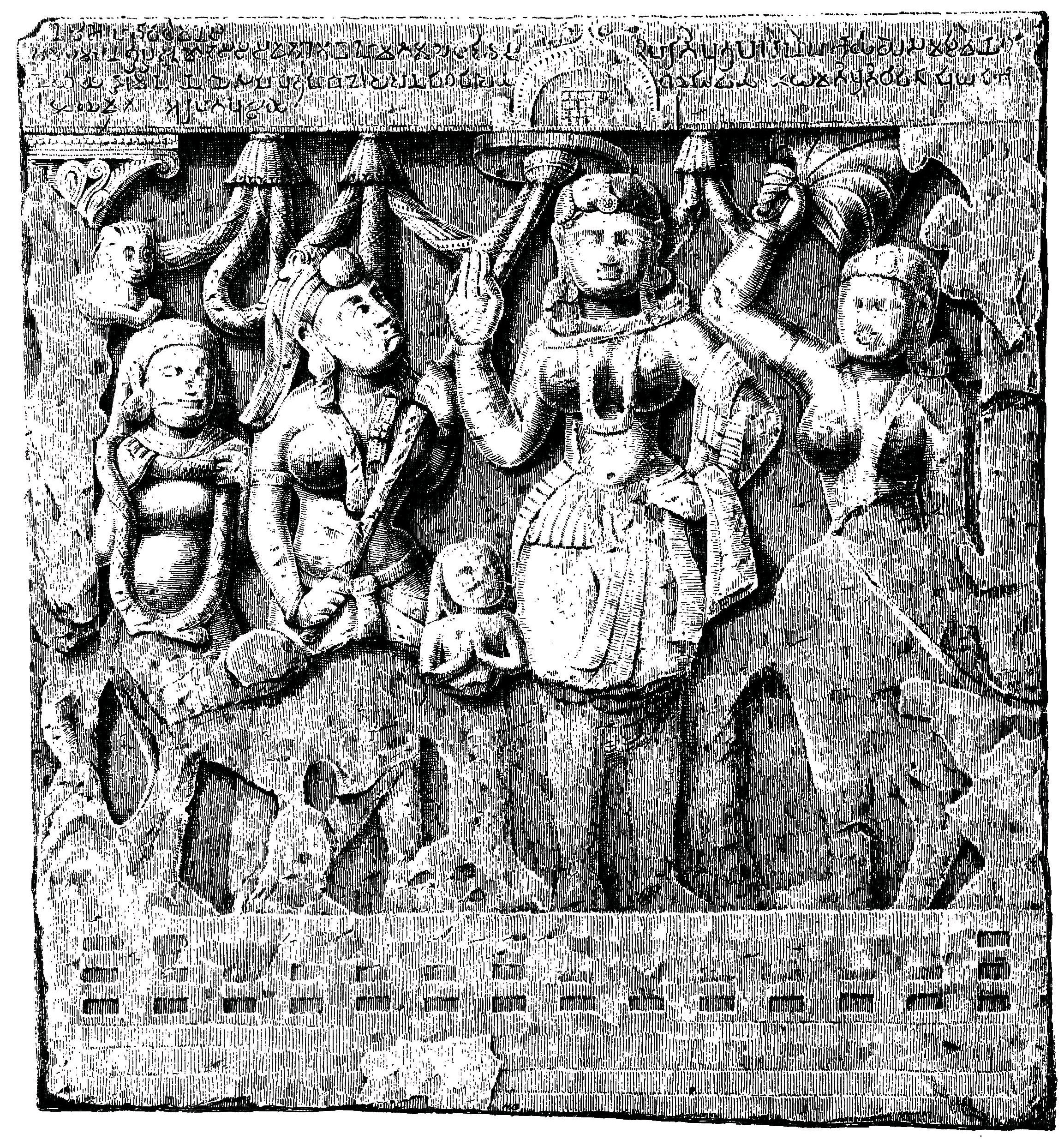 Kankali Tila plate of Sodasa. Another votive plate from Kankali Tila, this time with inscription "Samvat 79".